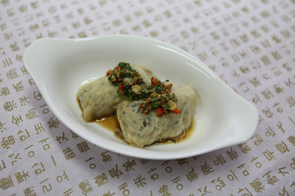 Korean cabbage roll